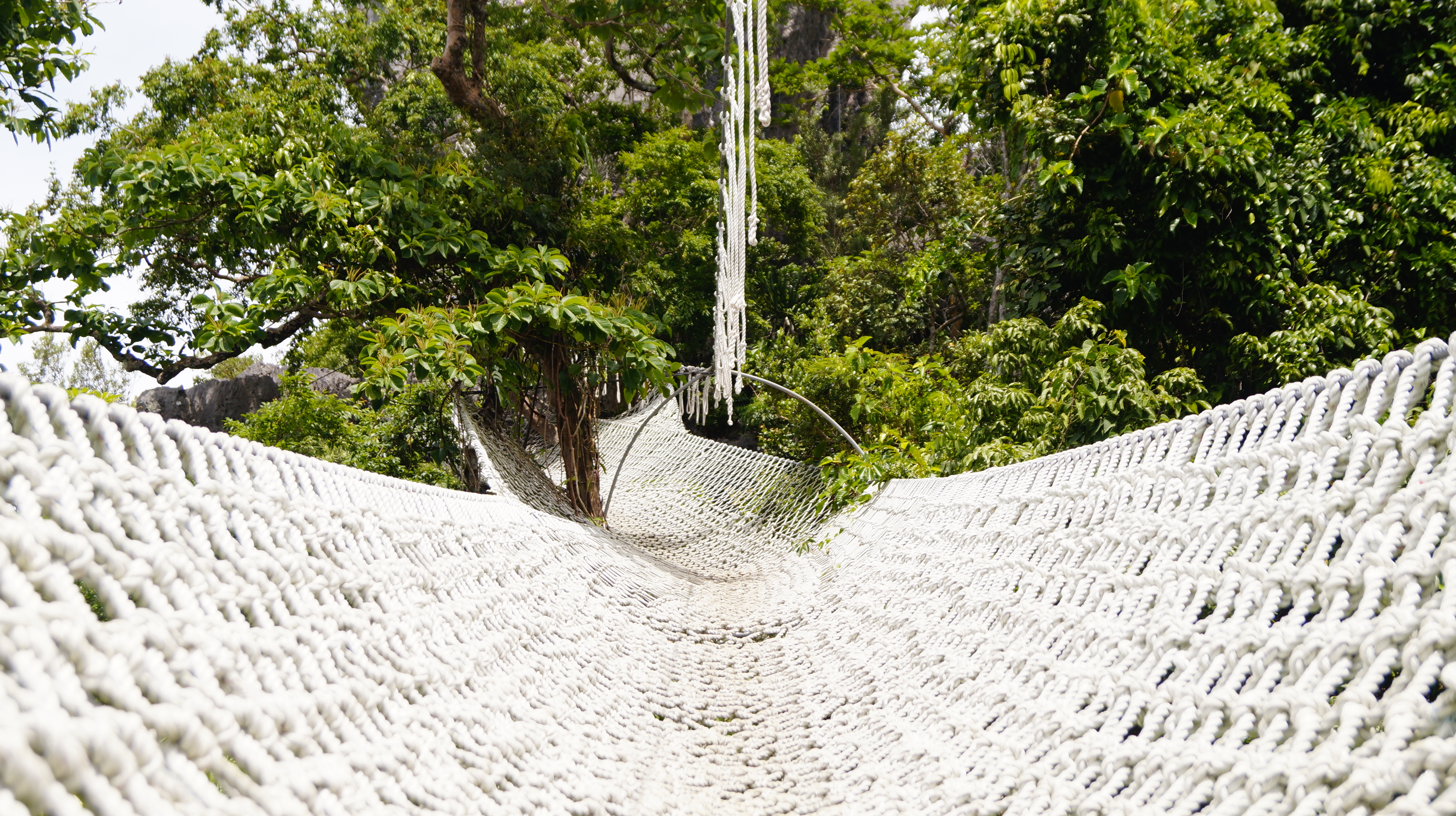 The famous rope segment of Duyan (Giant Hammock) at Masungi Georeserve